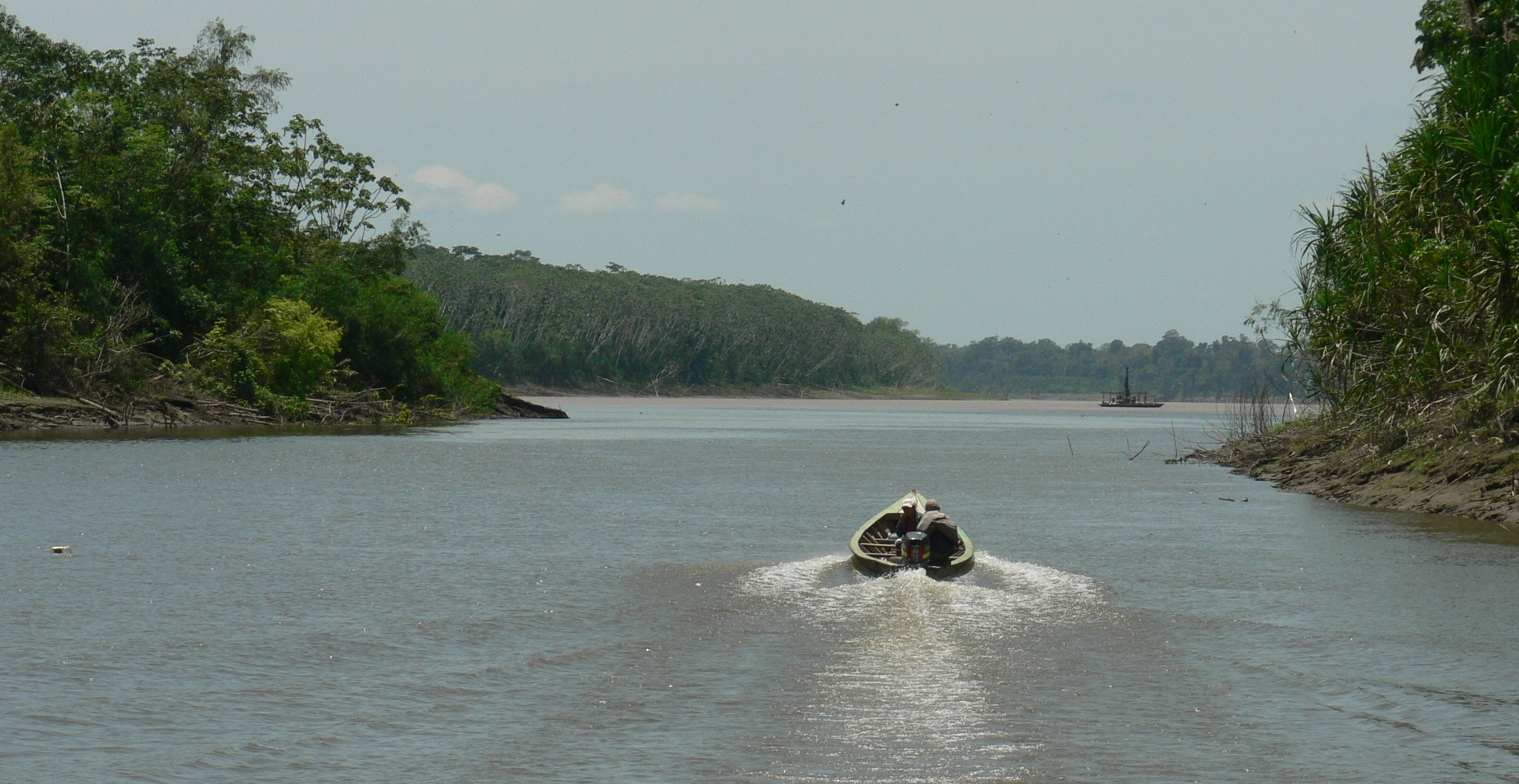 Mouth of the Río Manupare (front) into the Río Madre de Dios (background, from left to right) near El Sena, Pando, Bolivia (2014).